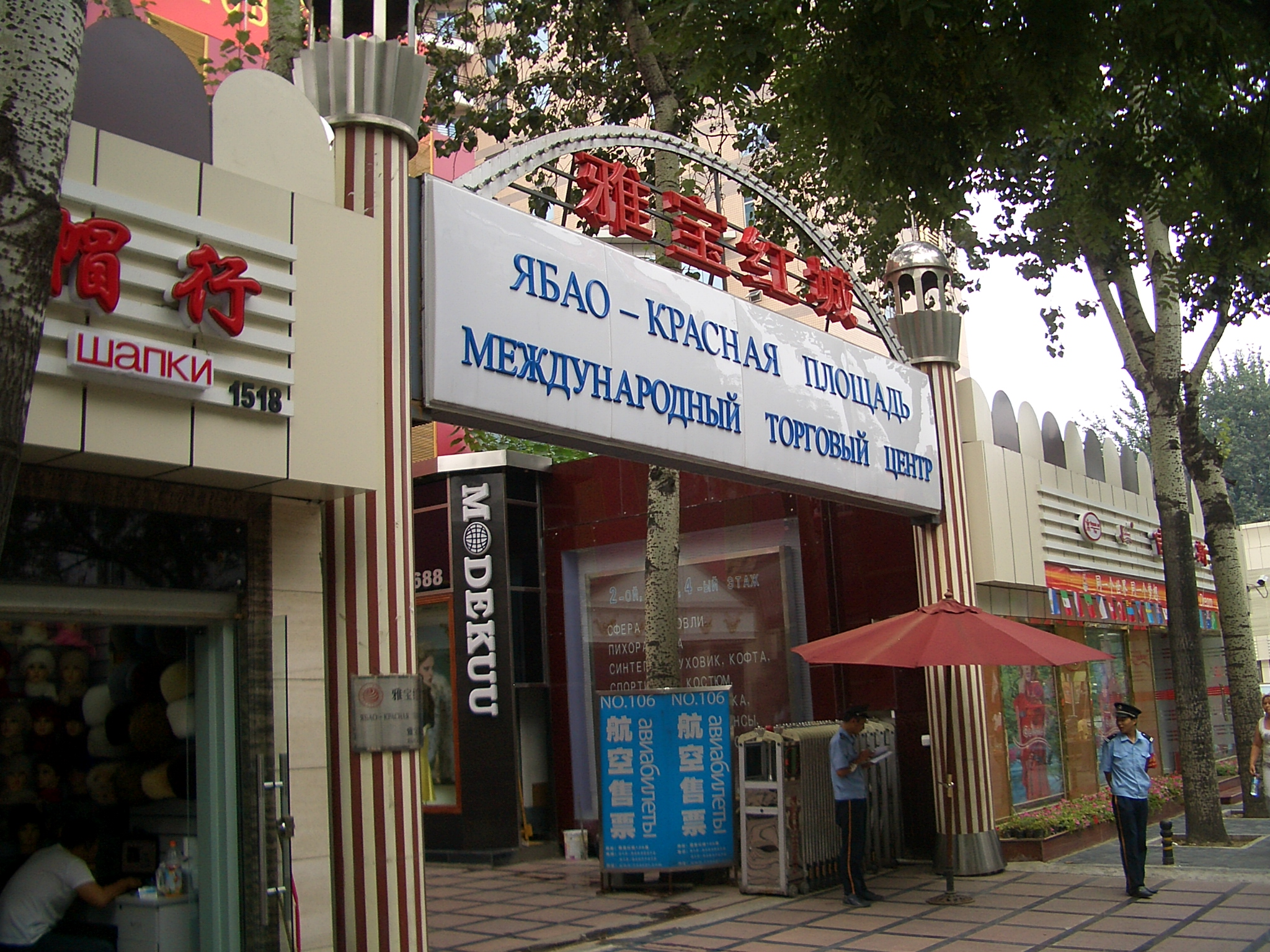 In Yabao Lu (Yabao Street) in Chaoyang District, Beijing